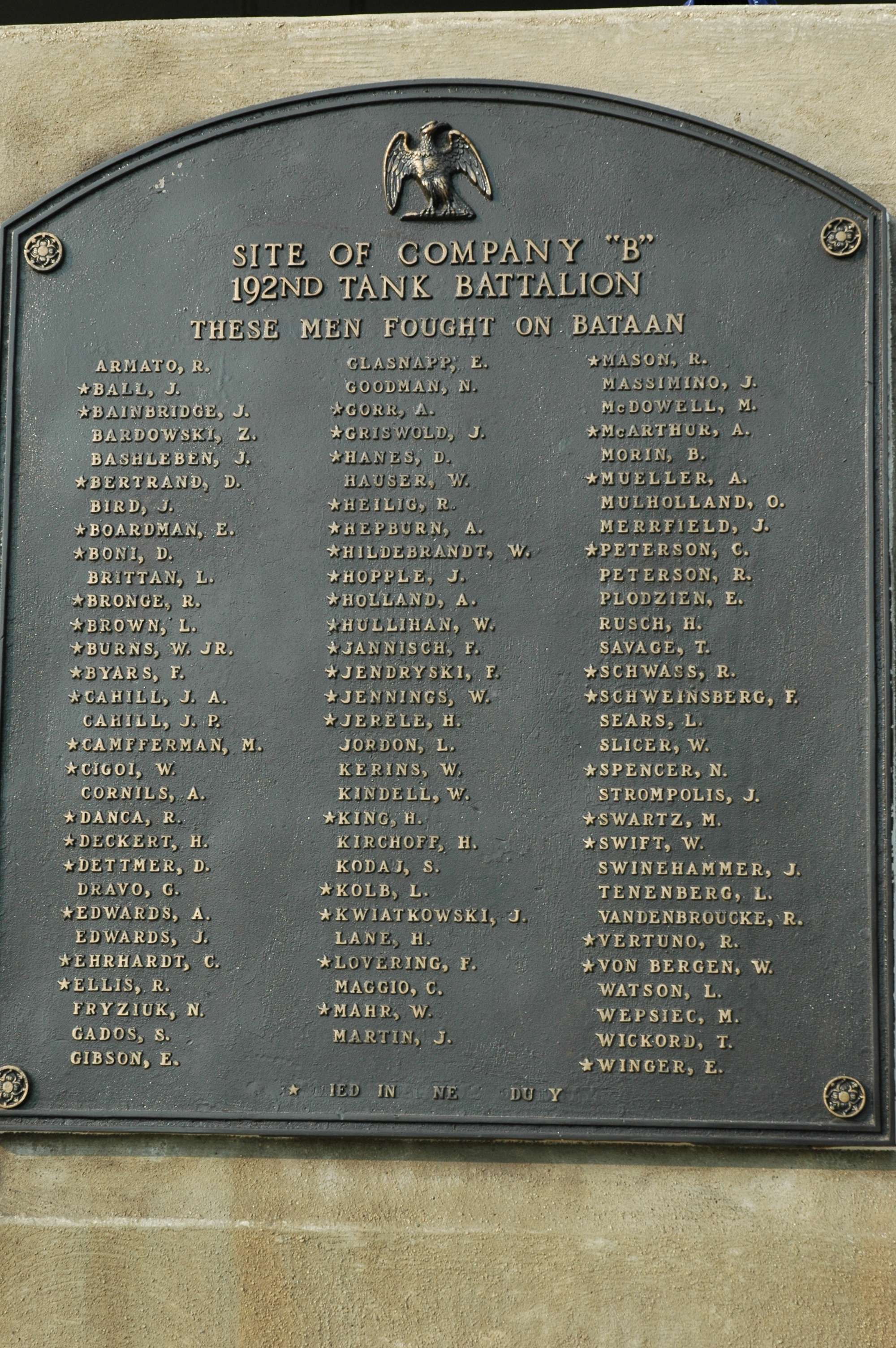 Company "B" commemorative plaque at Maywood, IL Veterans Memorial Park. A tablet to commemorate the people who fought in Bataan